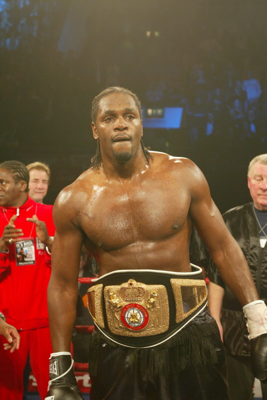 Audley A Force Harrison, 2004 WBF Champion